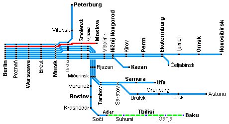 Scheme of tracks of Sibirjak express Berlin-Novosibirsk